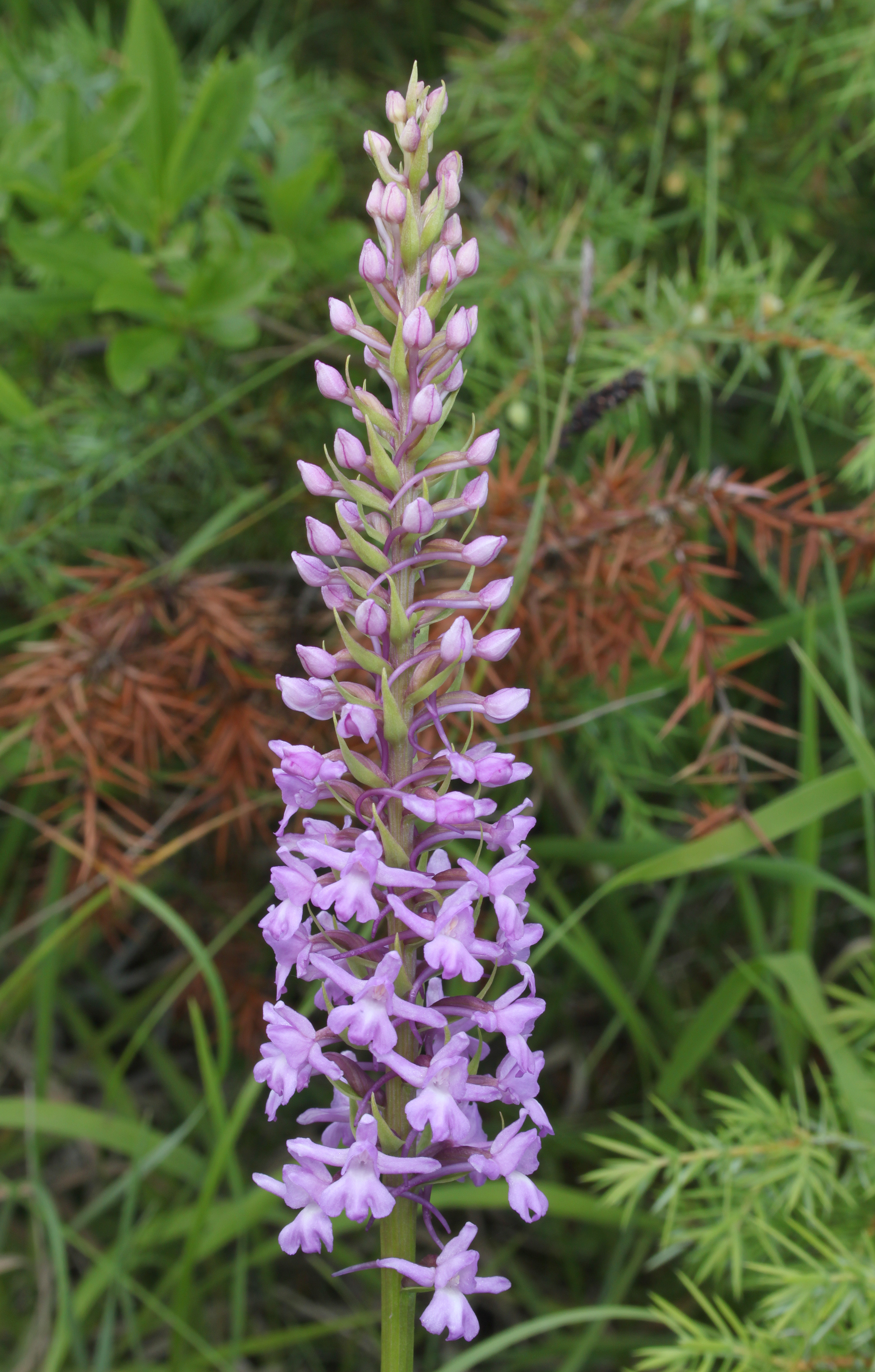 Fragrant Orchid, Gymnadenia conopsea, Family: Orchidaceae, Location: Germany, Blaubeuren, Pappelau